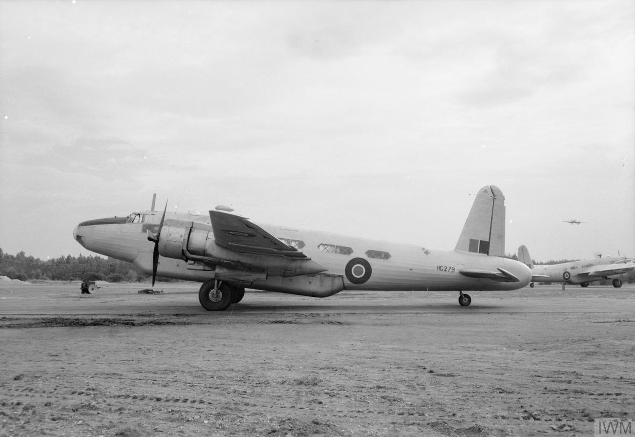 Aircraft of the Royal Air Force 1939-1945- Vickers Warwick. Warwick C Mark III, HG279, of No. 167 Squadron RAF, on the ground at Blackbushe, Hertfordshire.